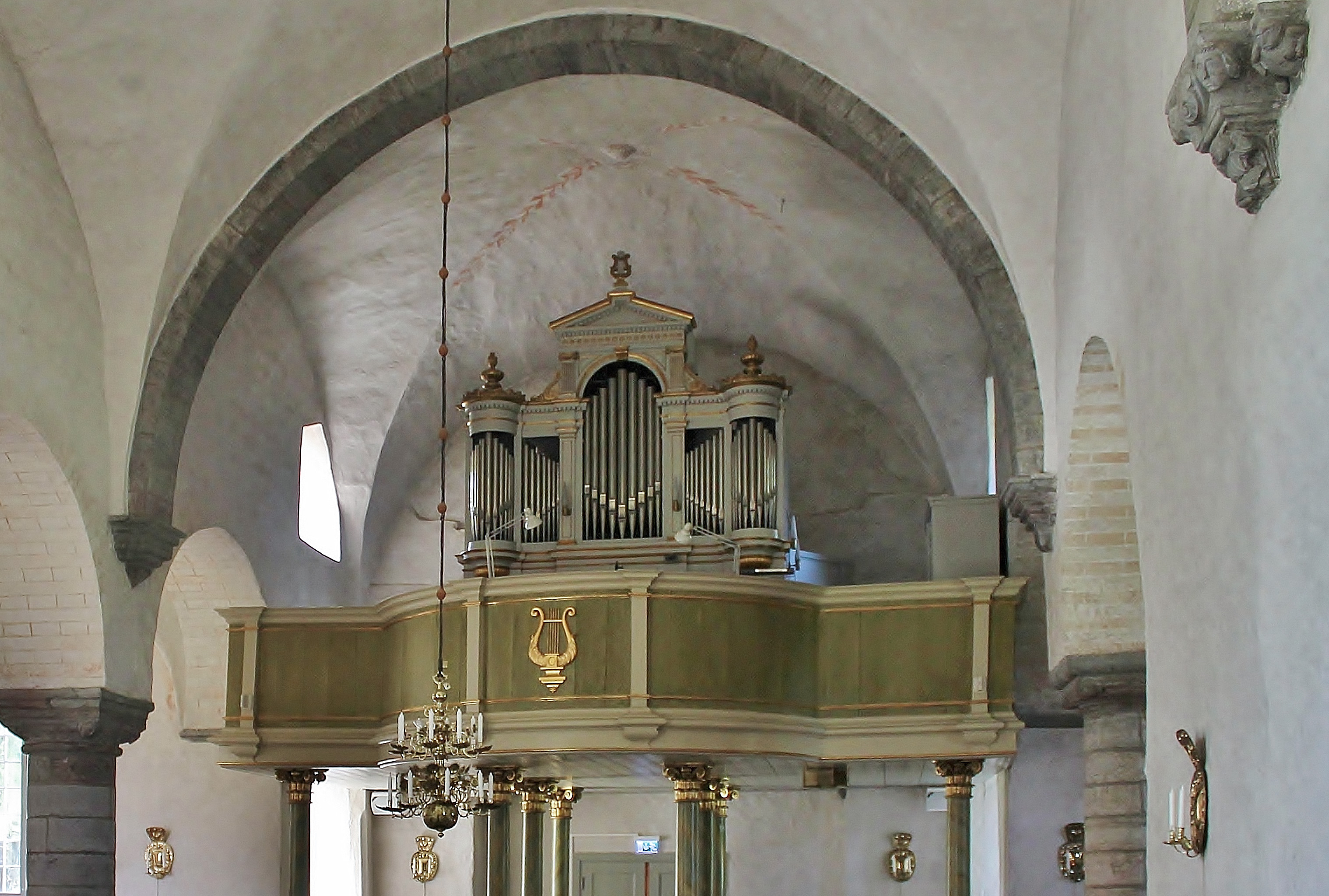 Gärdslösa Church. The organ